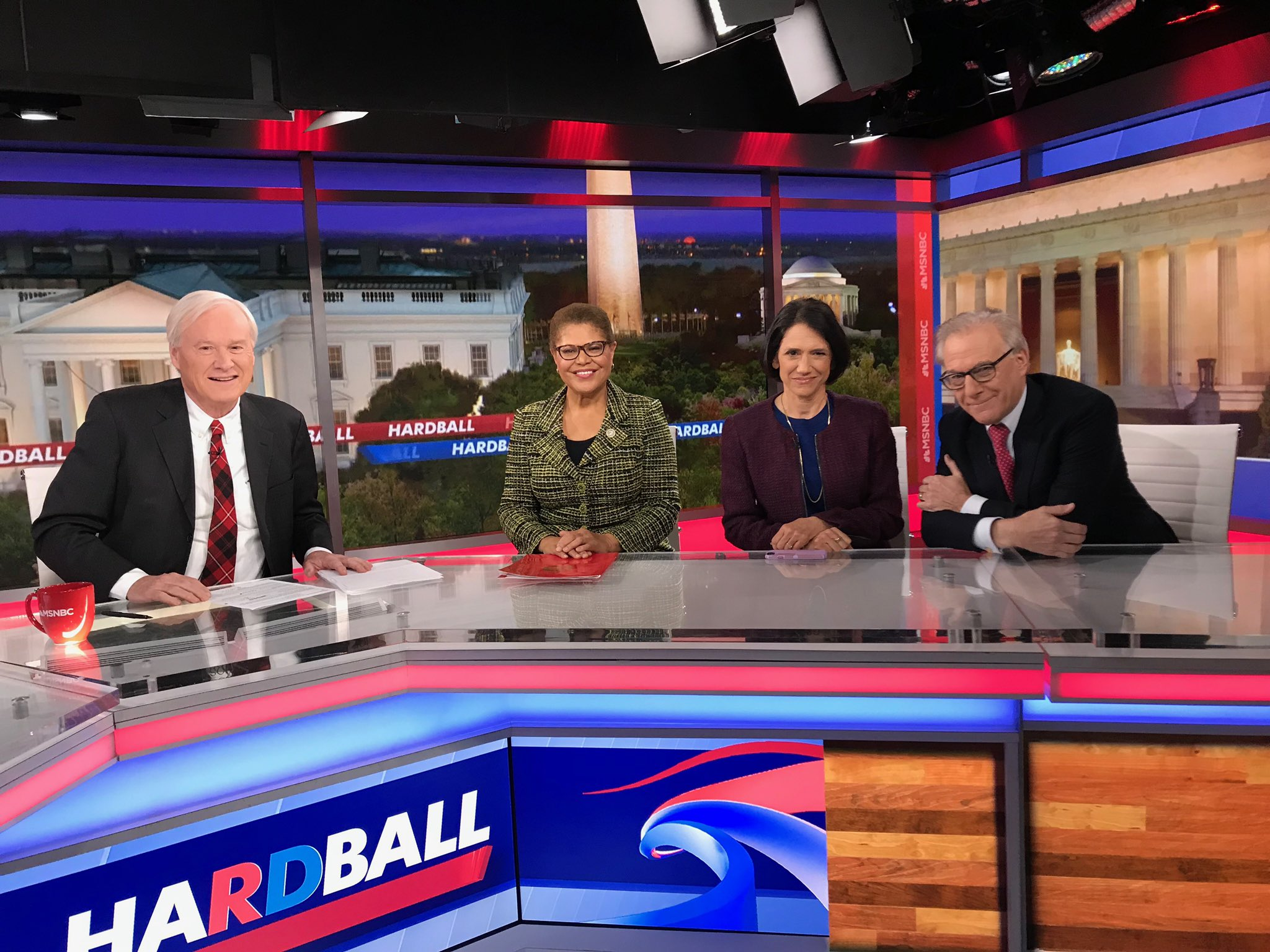 Live on @hardball. Tune in!